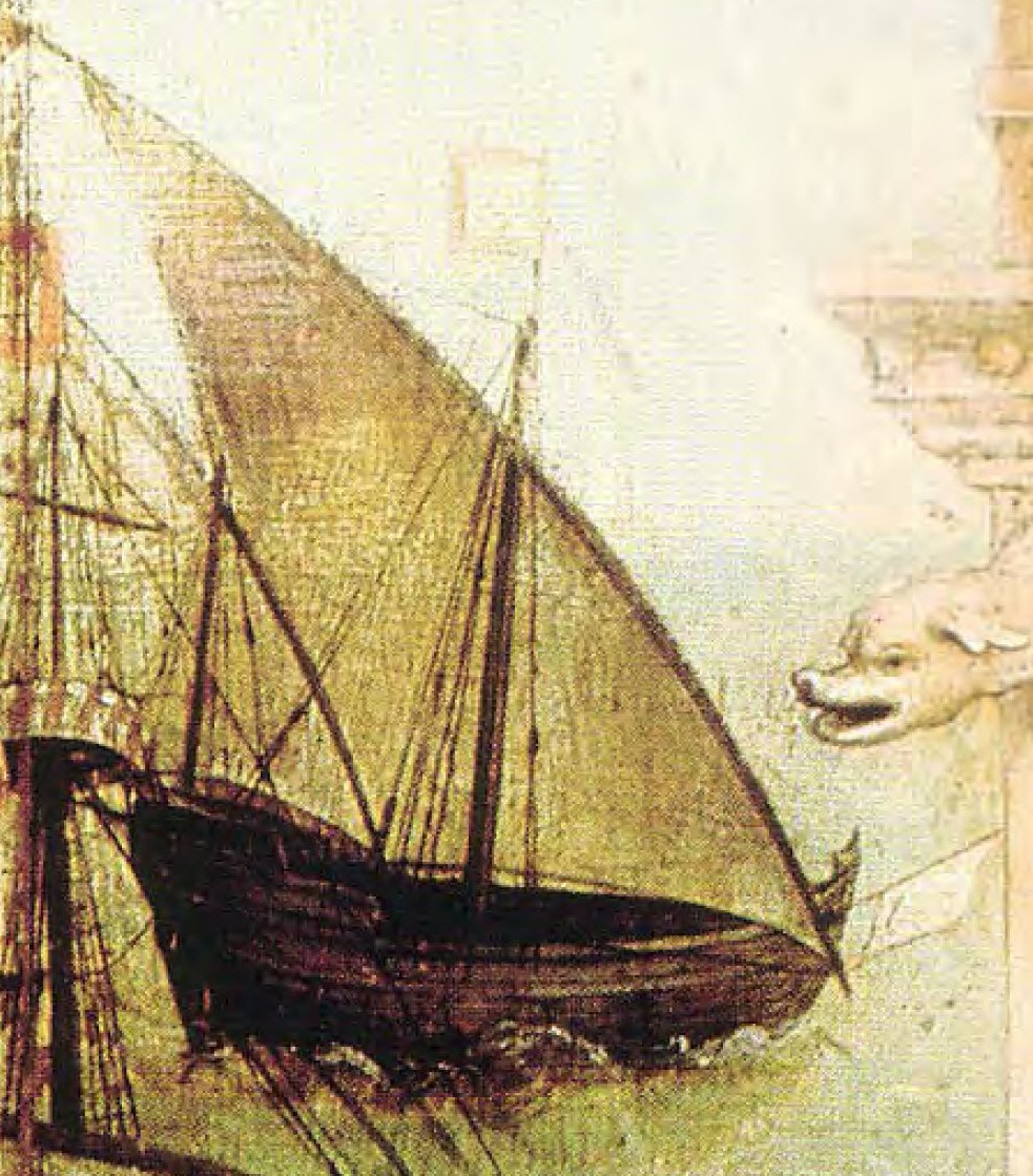 Caravella latina. Fragment of Santa Auta altarpiece. Lisbon National Museum of Ancient Art. 1520